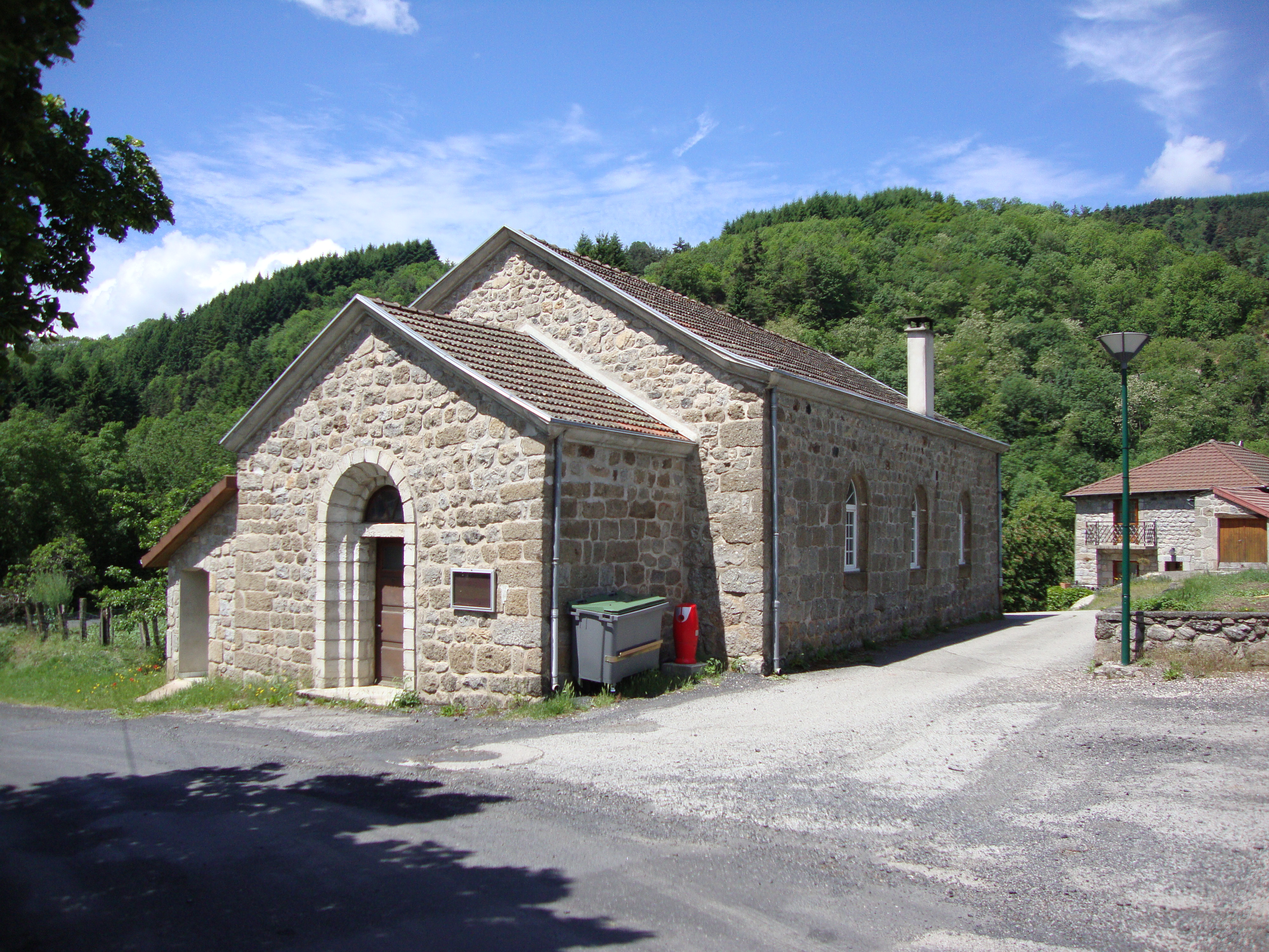 Intres (Ardêche, Fr) the temple (protestant church)